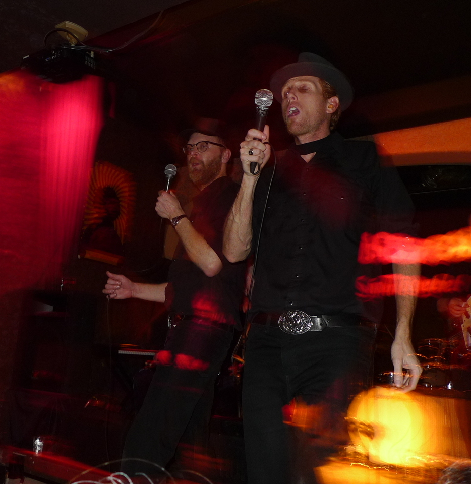 Slim Cessna's Auto Club at Le Bukowski club, Donostia (Basque Country).